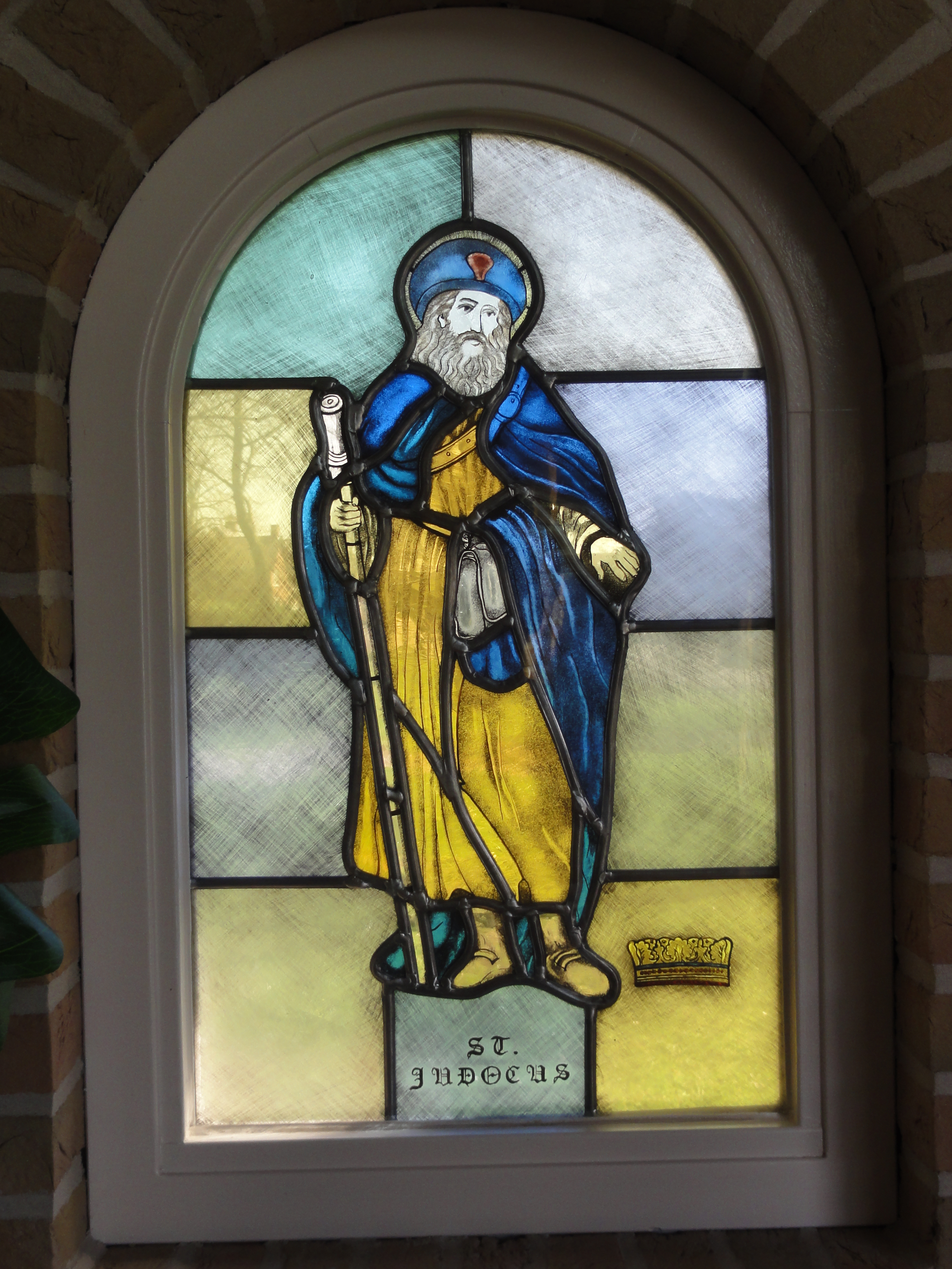 Sint Joost (Echt-Susteren) glasraam St.Judocus in de St.Theresiakapel. St. Judocus is gekleed als Jacobspelgrim